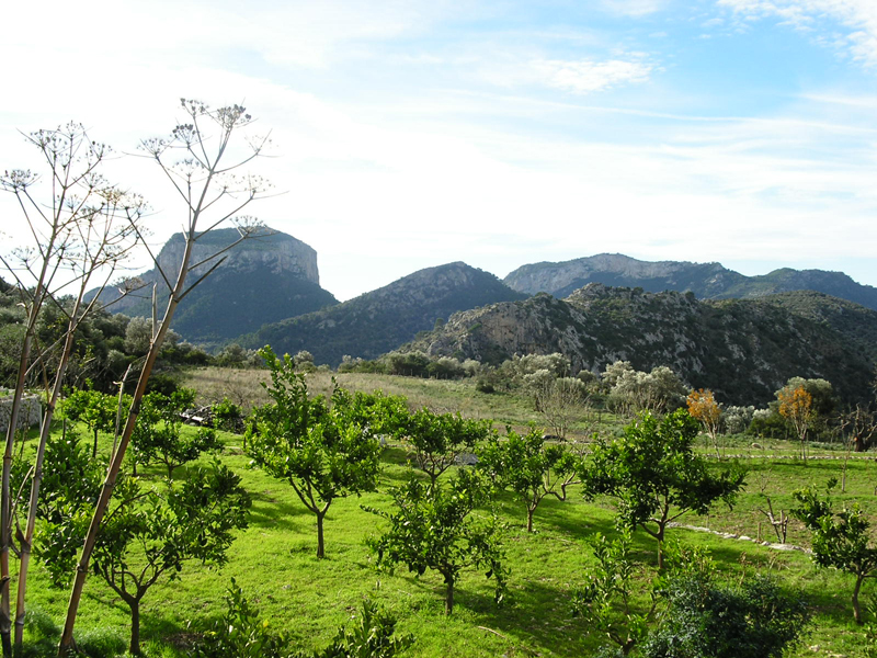 Lookout from refugi Tossals Verds; the prominent mountain left is the Puig d’Alcadena